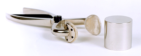 The Arago Kilogram, one of the first metric standards used by the United States. It was procured by the US from France in 1821 to serve as primary standard for metric weights. It was made of platinum by the French firm Fortin and certified by French physicist François Arago to be within 1 mg of the "Kilogram of the Archives", the French prototype standard defining the kilogram. In 1866 the US Congress legalized, but did not require the use of metric measures in the United States. It served as the primary US standard for the kilogram until 1889, when the US received the current standards, K4 and K20, from the BIPM. The Arago Kilogram is now part of the NIST museum collection, US National Institute for Standards and Technology, Bethesda, Maryland.